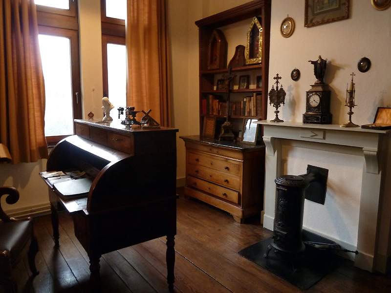 Working chamber father Dehon SCJ (Procure Brussels)